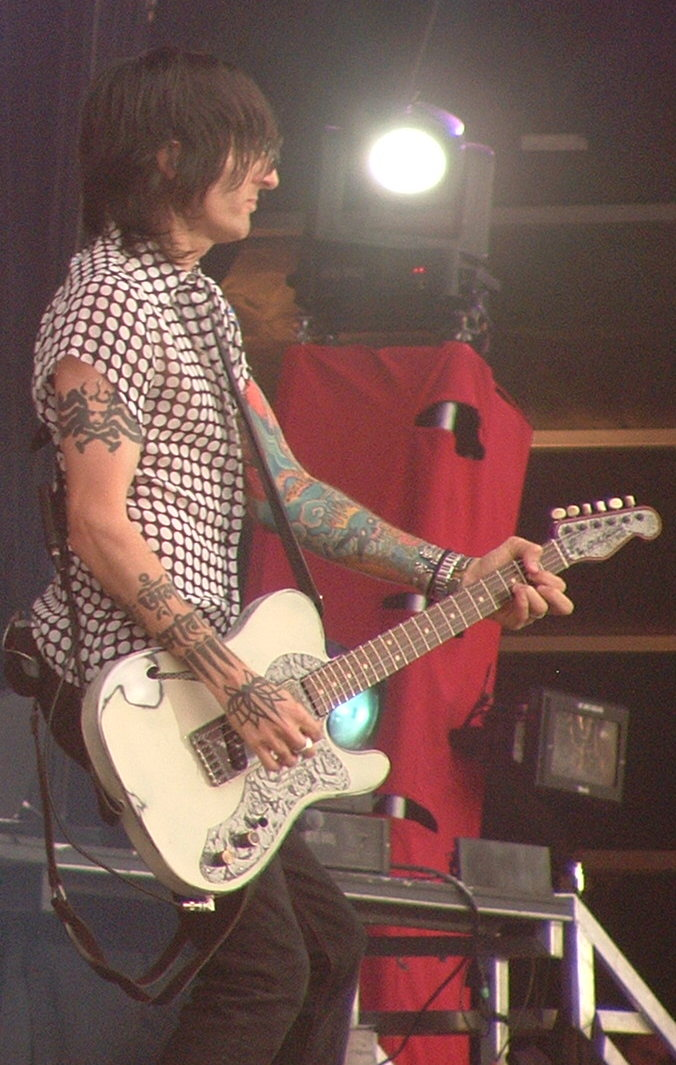 The New Lineup of GUNS N' ROSES (Robin Finck, Tommy Stinson, Axl Rose and Richard Fetus)